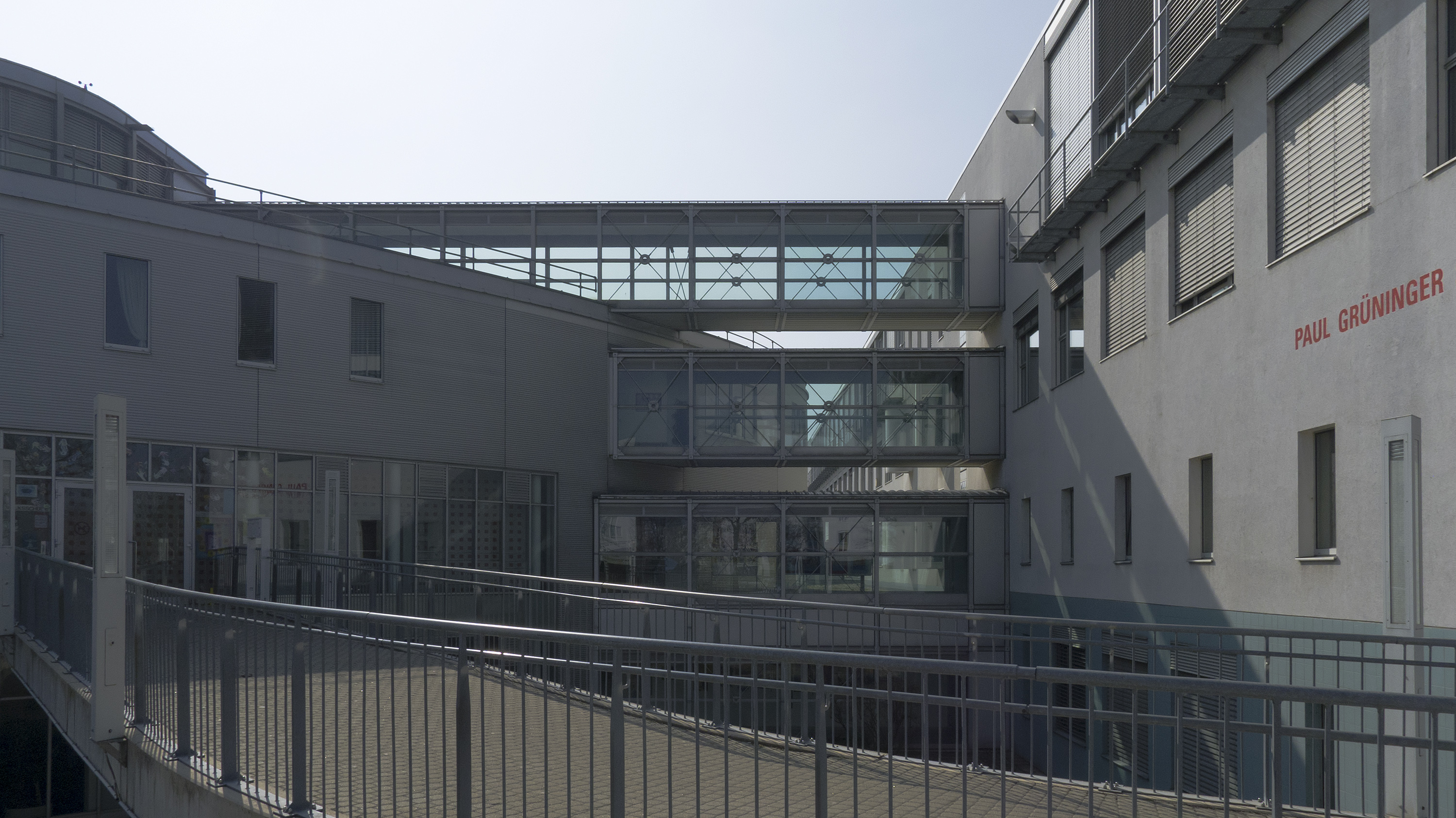 High school Paul-Grüninger-Schule in Vienna 21